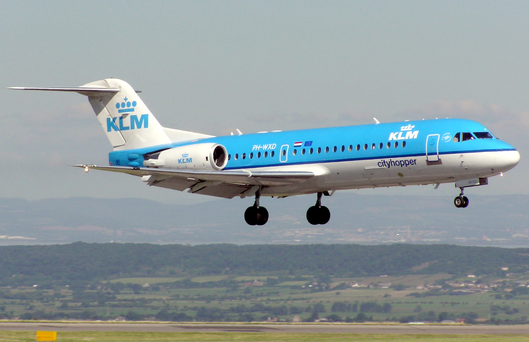 KLM Fokker 70 landing at Bristol International Airport, Bristol, England. Dutch registered as PH-WXD. Photographed by Adrian Pingstone in August 2005 and released to the public domain.